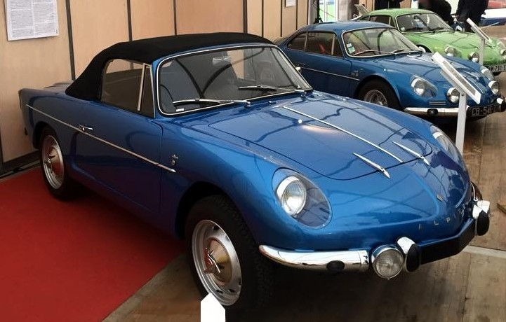 Alpine A110 Cabrio Sport